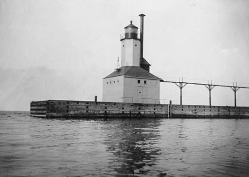 US Coast Guard Archive photo of the Michigan City East Light